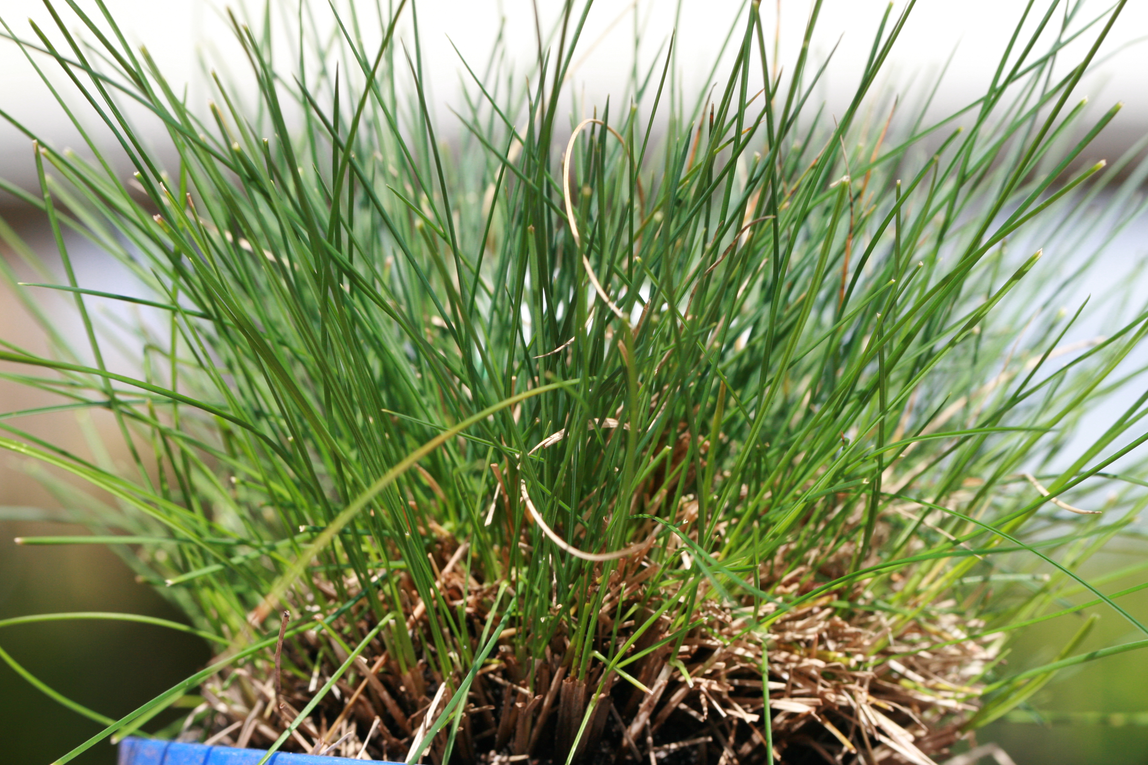 Festuca glauca for sale in a Sydney nursery.